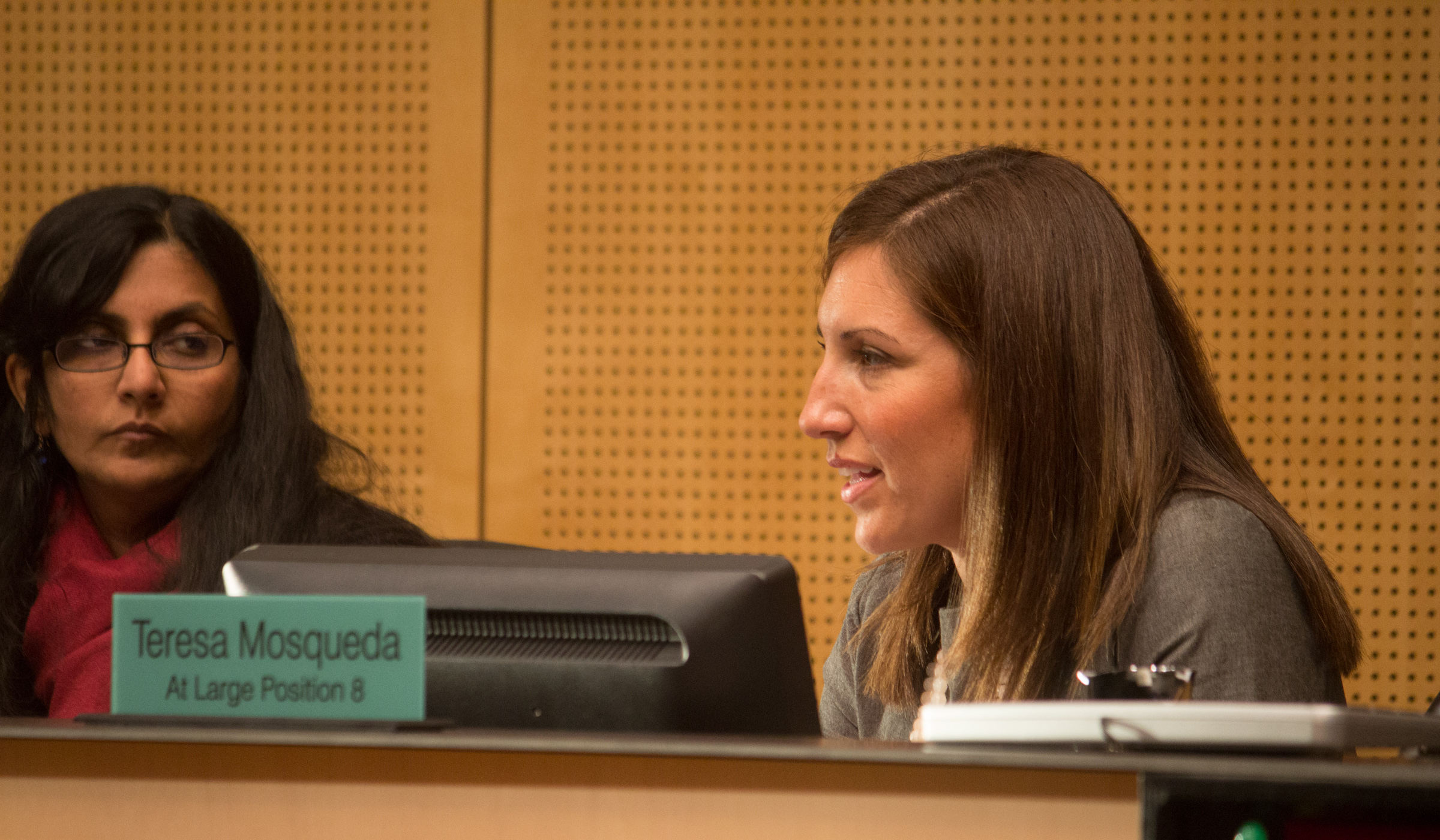 Seattle City Council members Kshama Sawant and Teresa Mosqueda in council chambers, December 2017.